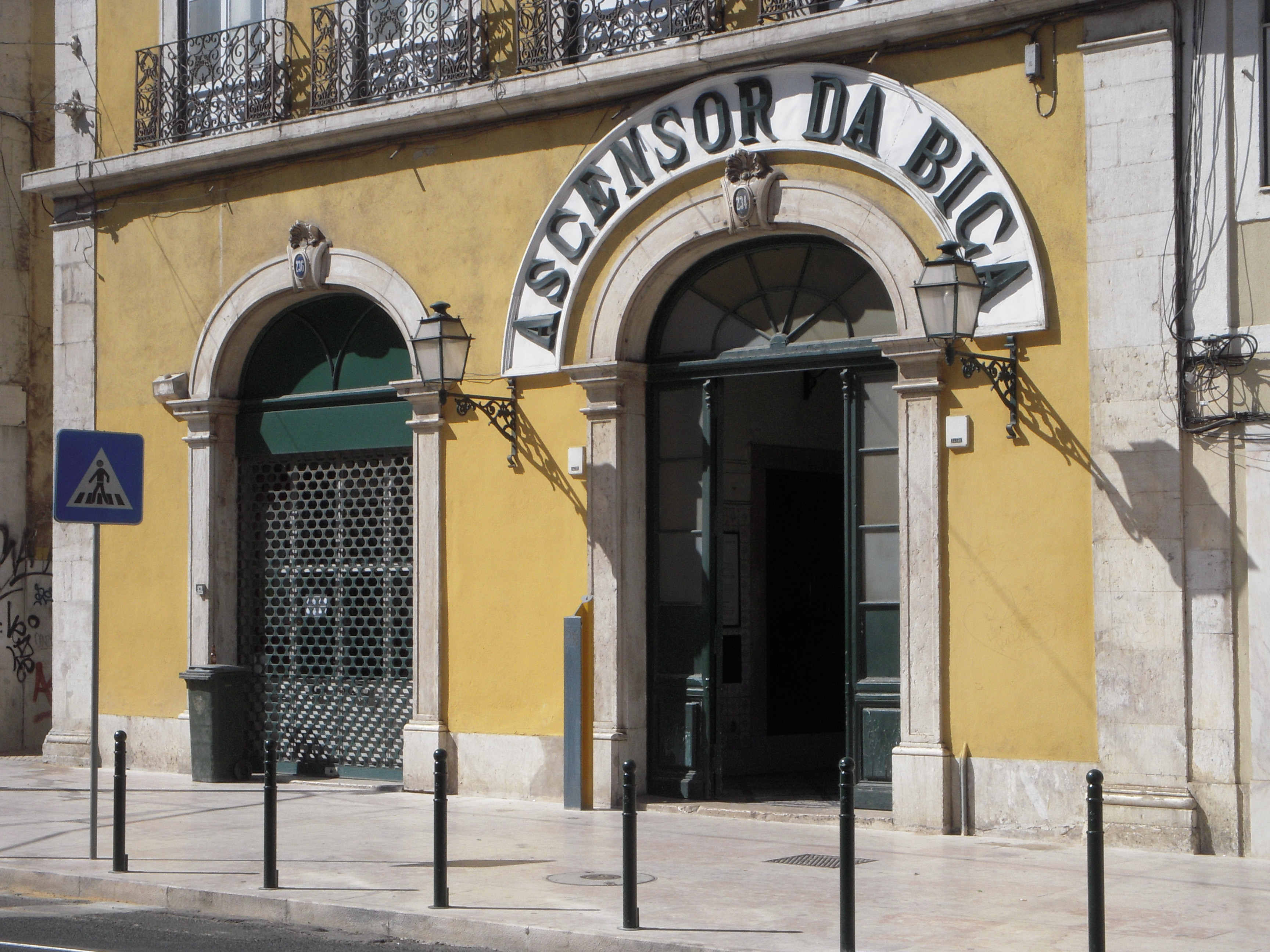 Lower station of the 'Ascensor da Bica' funicular in Lisbon, Portugal. April 28, 2013.